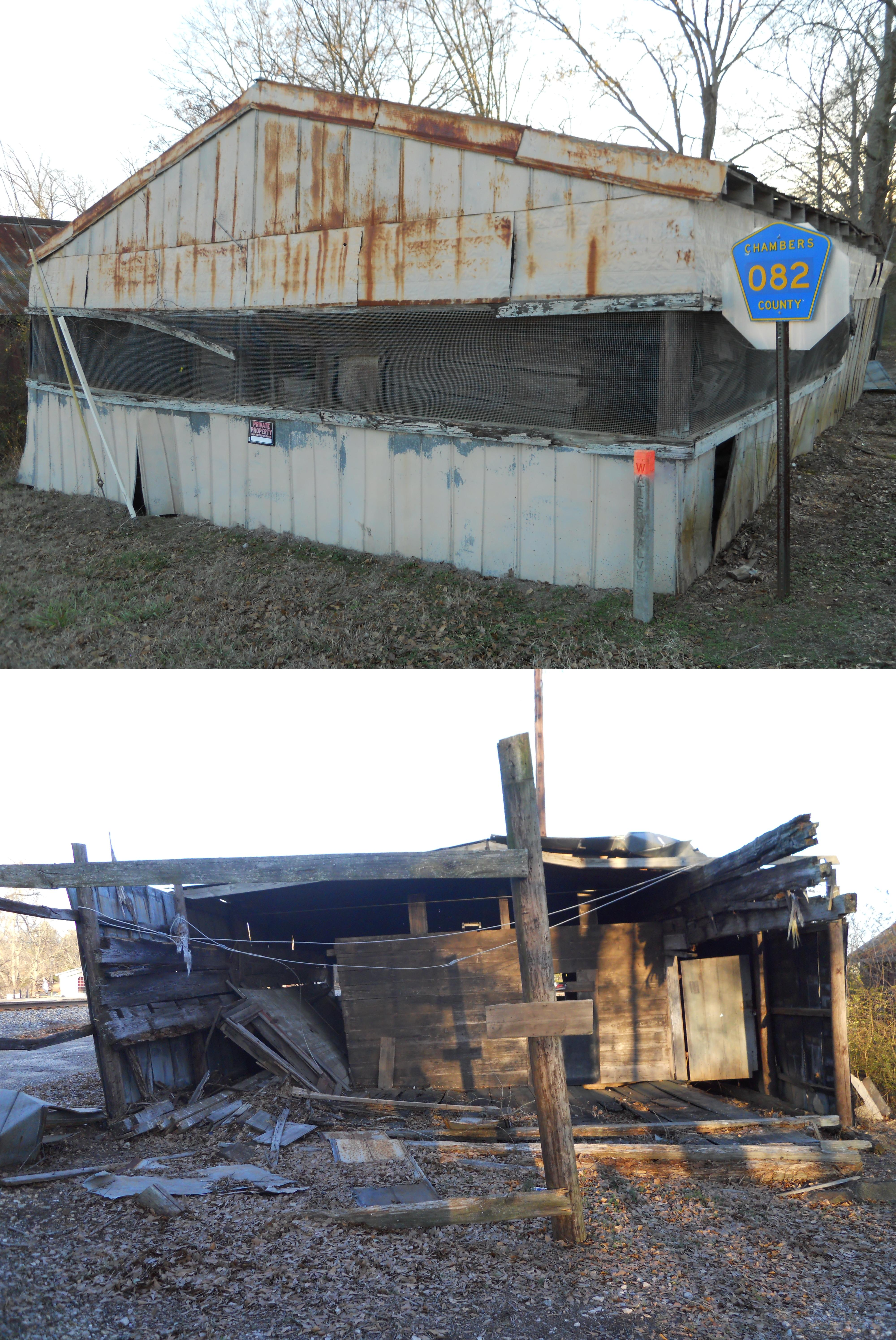 This is a front and rear view of Ft. Cusseta in Cusseta, Alabama as it appeared in January of 2011.